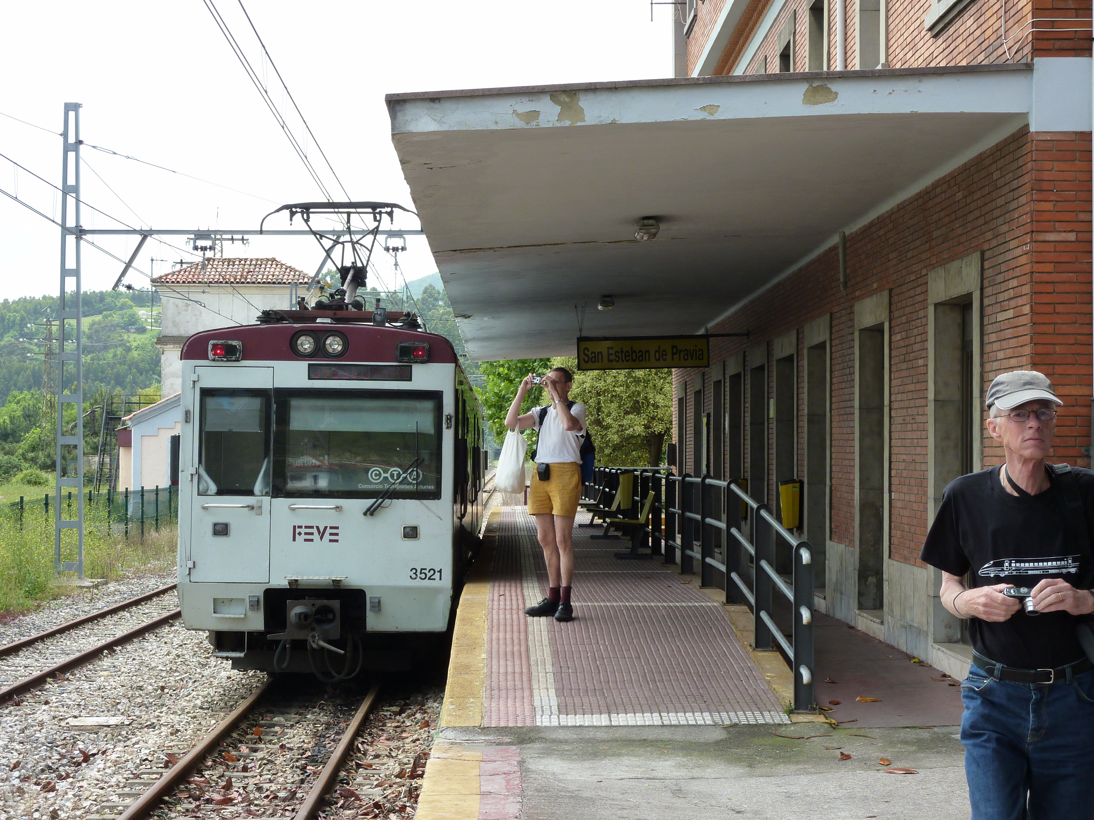 Railway station San Esteban de Pravia (FEVE) in Asturias, Spain